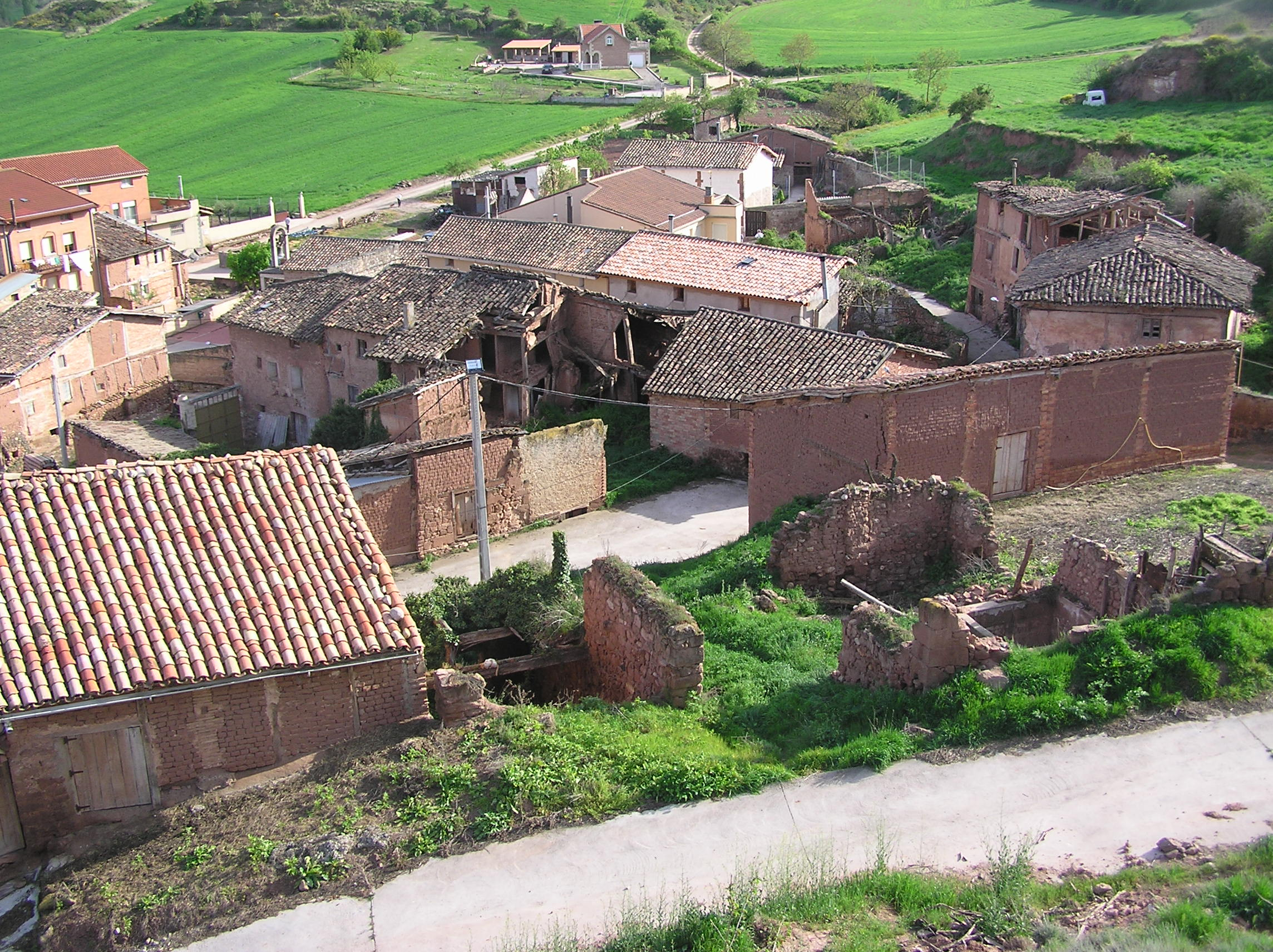 Town of Bezares (La Rioja / Spain)